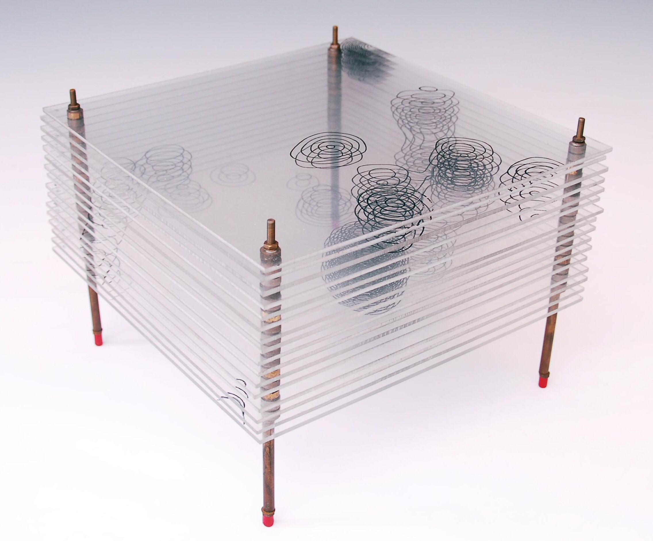 The model gives a three dimensional map of part of one of the crystal salts of penicillin. The contours are lines of electron density and show the positions of individual atoms in the structure. The diagram shows two schematic views of the structure. Based on X-ray crystallography work by Dorothy Hodgkin and Barbara Low (Oxford) and C.W. Bunn and A. Turner-Jones (I.C.I. Alkali Division, Northwich). The work has been made available by the Museum of History of Science, University of Oxford under Wikimedia Commons for Ada Lovelace Day 2013. The Full record is available at